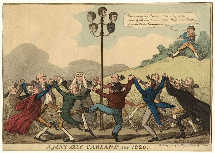 A May Day Garland for 1820 The print includes representations of Nicholas Vansittart, 1st Baron Bexley (1766-1851); John Thomas Brunt (1782-1820) (executed conspirator); George Canning (1770-1827); William Davidson (1786-1820) (executed conspirator); George Edwards (1787-1843) (spy and agent provocateur who uncovered the Cato Street Conspiracy); Robert Gifford, 1st Baron Gifford (1779-1826); James Ings (1794-1820) (executed conspirator); Robert Stewart, 2nd Marquess of Londonderry; Henry Addington, 1st Viscount Sidmouth (1757-1844); Charles Abbott, 1st Baron Tenterden (1762-1832); Arthur Thistlewood (1770-1820) (executed conspirator); and Richard Tidd (1773-1820) (executed conspirator).